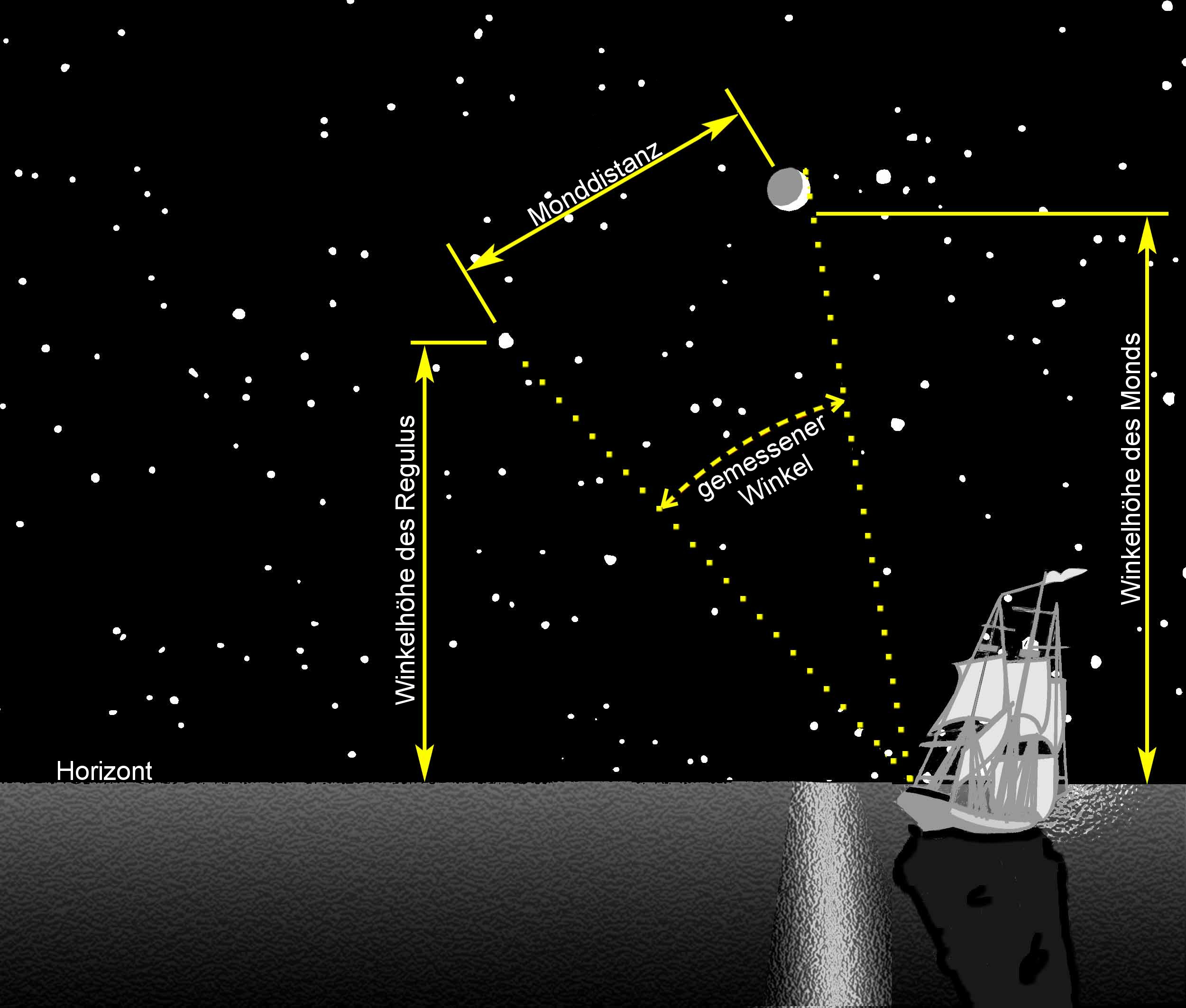 Drawing of lunar method applied on a ship with stars and moon in sky.